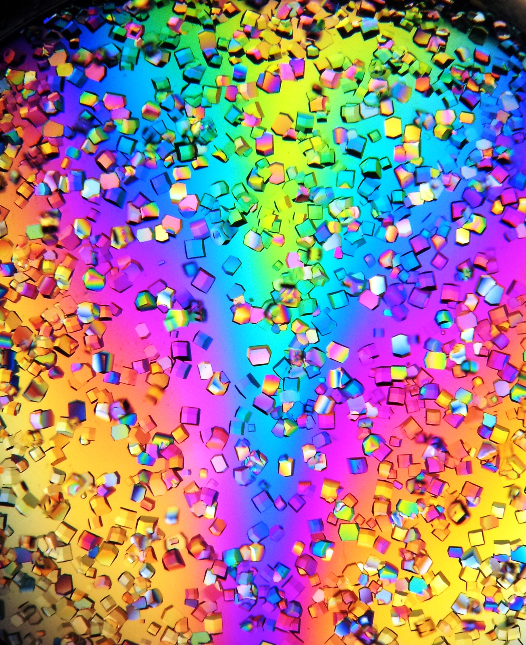 Lysozyme crystals observed through polarizing filter in Nikon SMZ800 microscope. Polarizer is a simple solution to distinguish protein crystals from salt crsytals due to their optical differences, saving time and money measuring salt crystal in diffractometer.